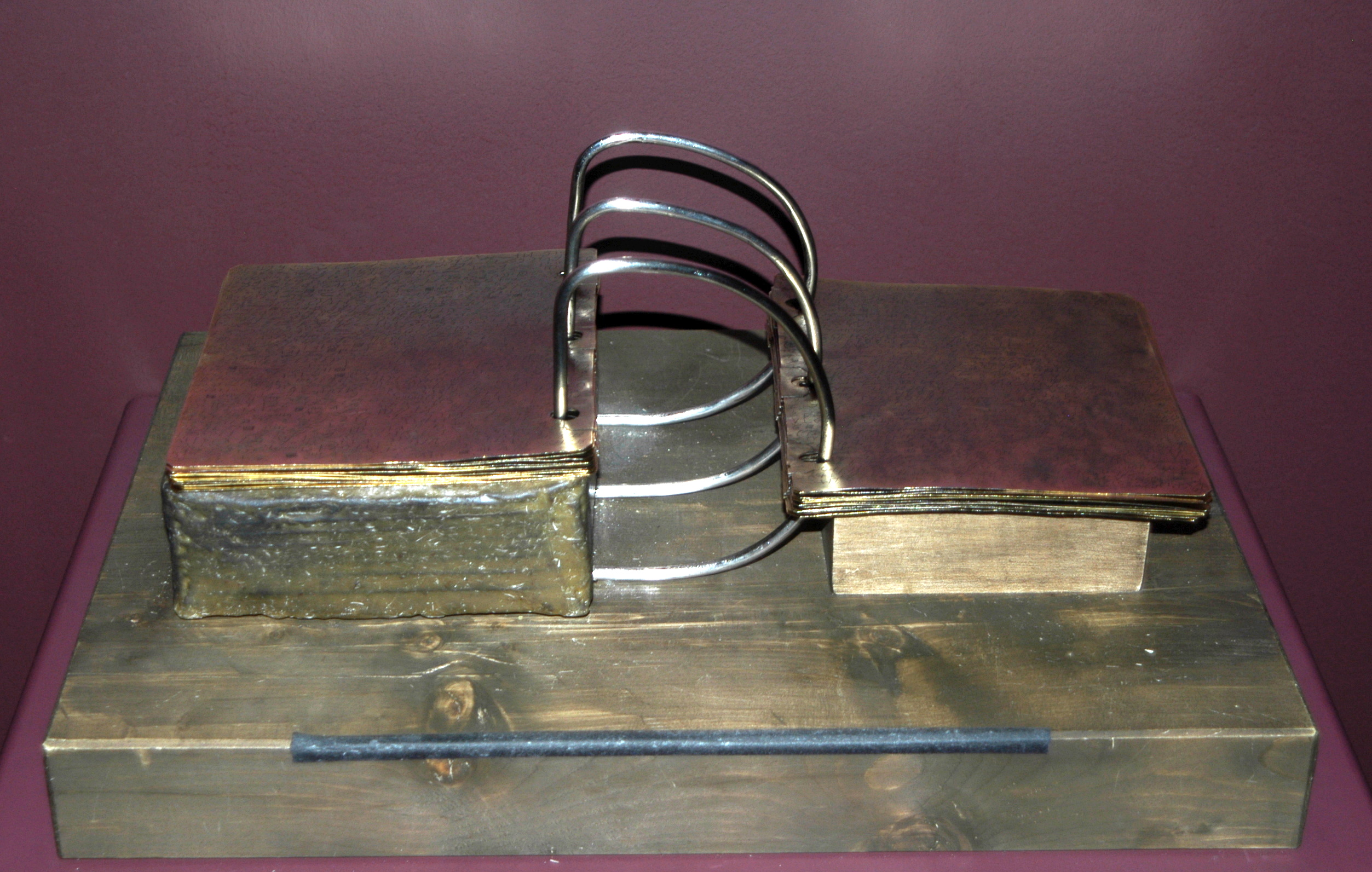 Pictured at the Museum of Church History and Art, Salt Lake City